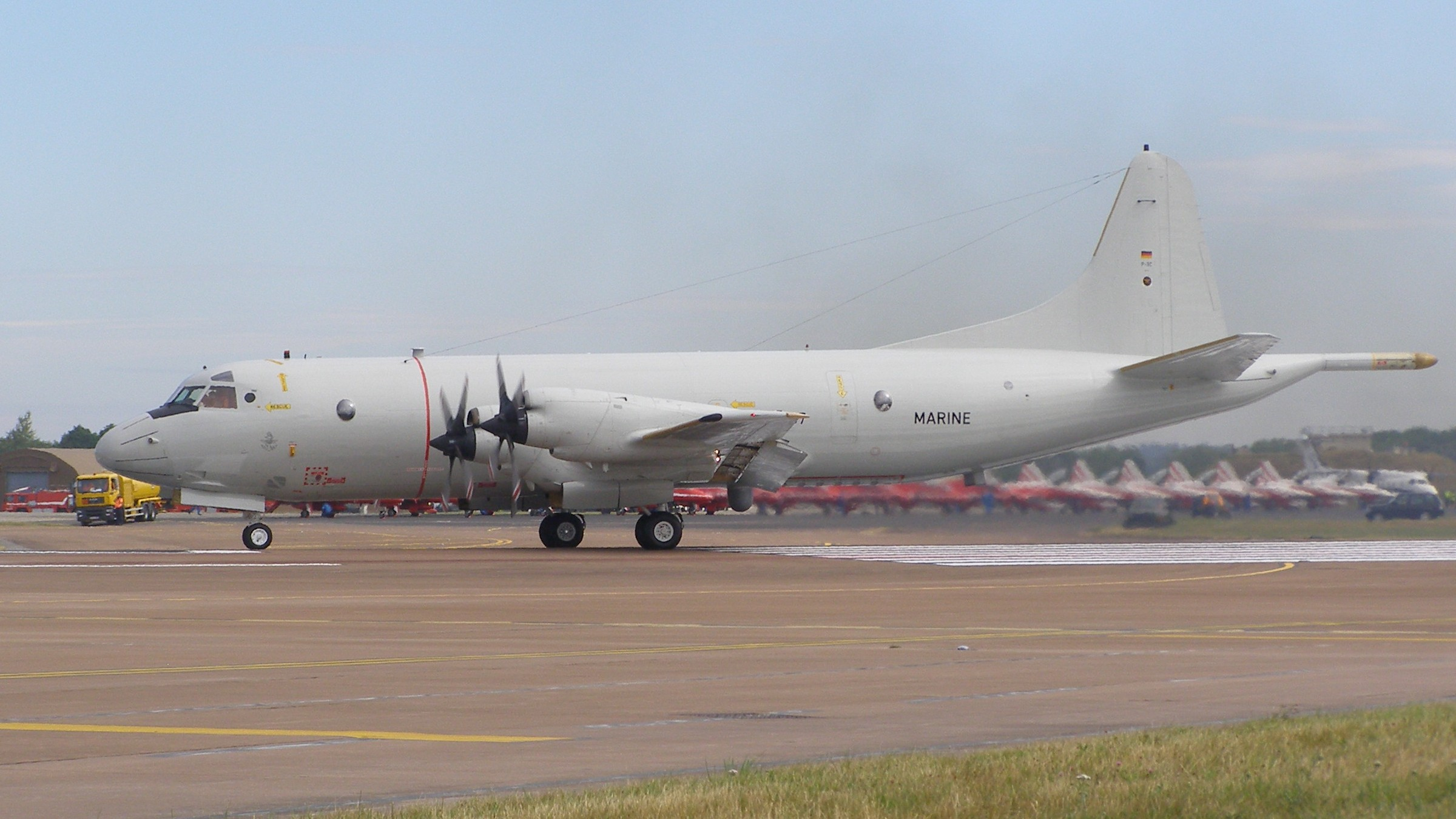 60+07 is a Lockheed P-3 Orion of the German Navy departing from the Royal International Air Tattoo 2010 at RAF Fairford, England.